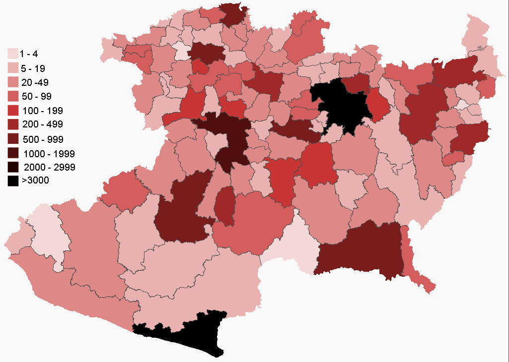 Cases positives coronavirus